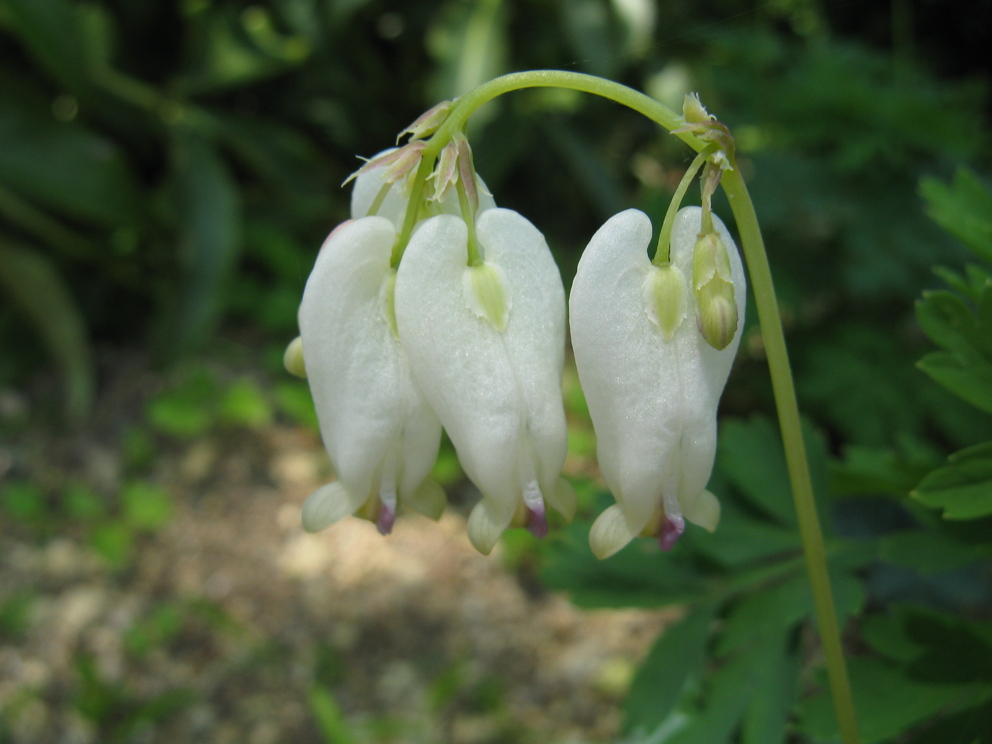 Dicentra formosa 'Aurora' Place:Osaka Prefectural Flower Garden,Osaka,Japan